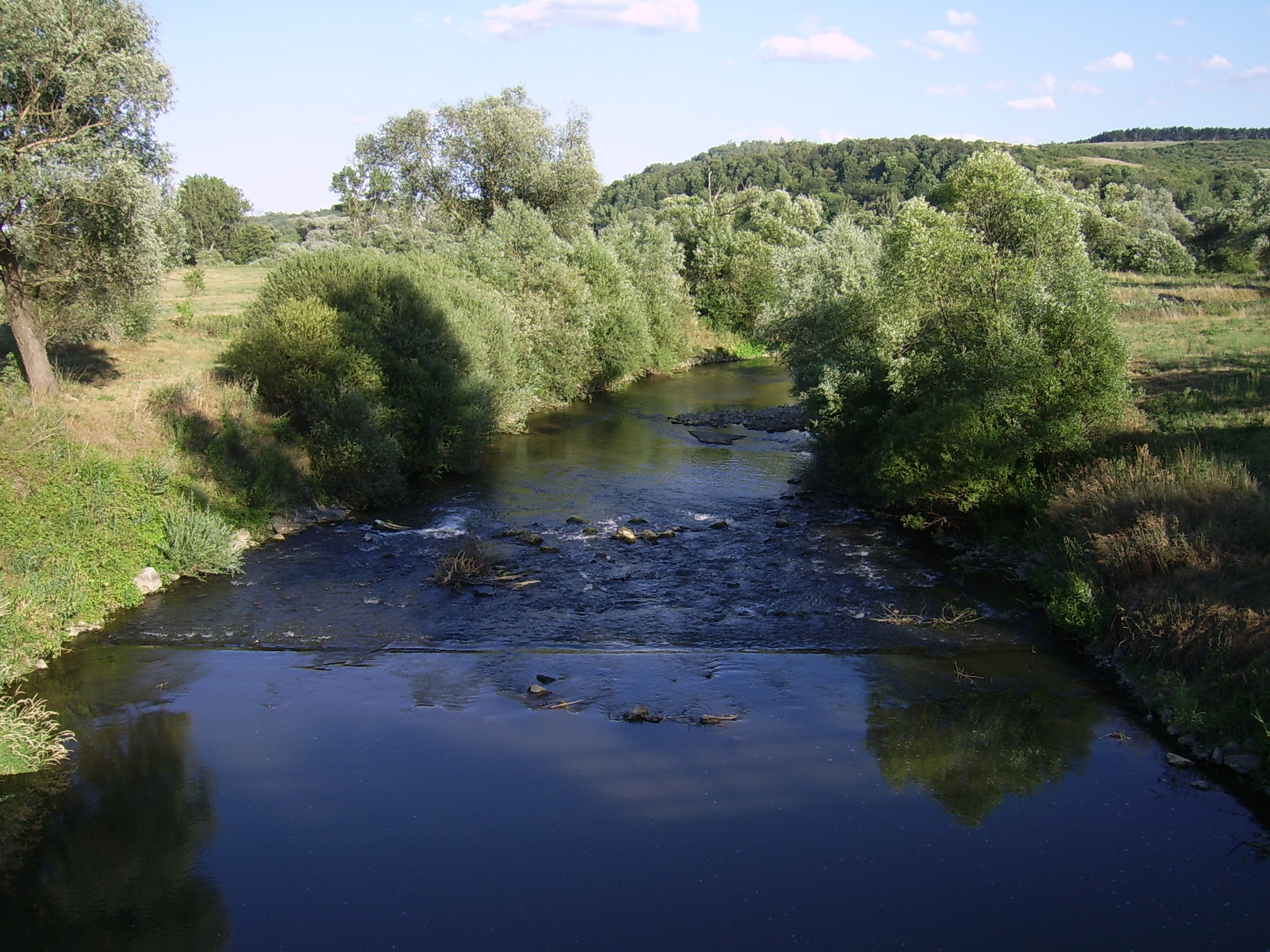 The Rima River at Velkenye.